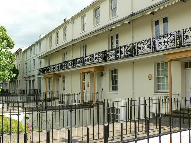 Priory Terrace, Bromham Road, Bedford. According to the plaque on a wall at the far end "Threatened with destruction 1970. The Georgian Terrace nos 22 to 48 Bromham Road built 1832. Saved by the action of The Bedford Society 1972. Restored by Kingsbury Securities (Bedford) Ltd 1972-73. The new wing along Hassett Street erected 1974-75" See also 1374293